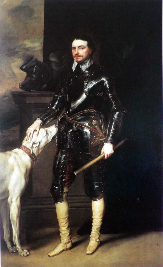 trustees of Olive, Countess Fitzwilliam's Chattels Settlement